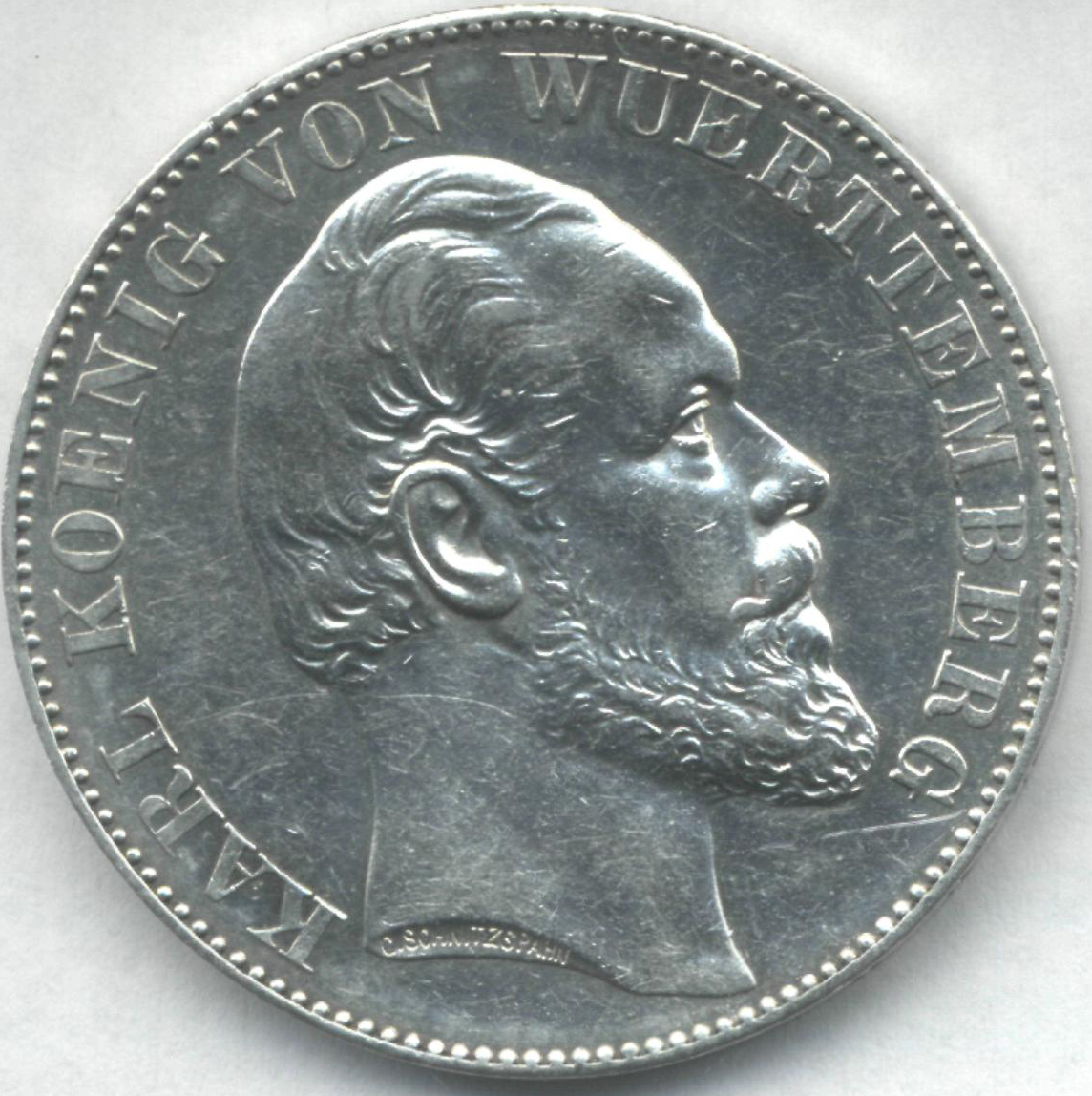 Siegestaler Wurttemberg obverse 1871. Coin from my collection. Scan was made by me personally